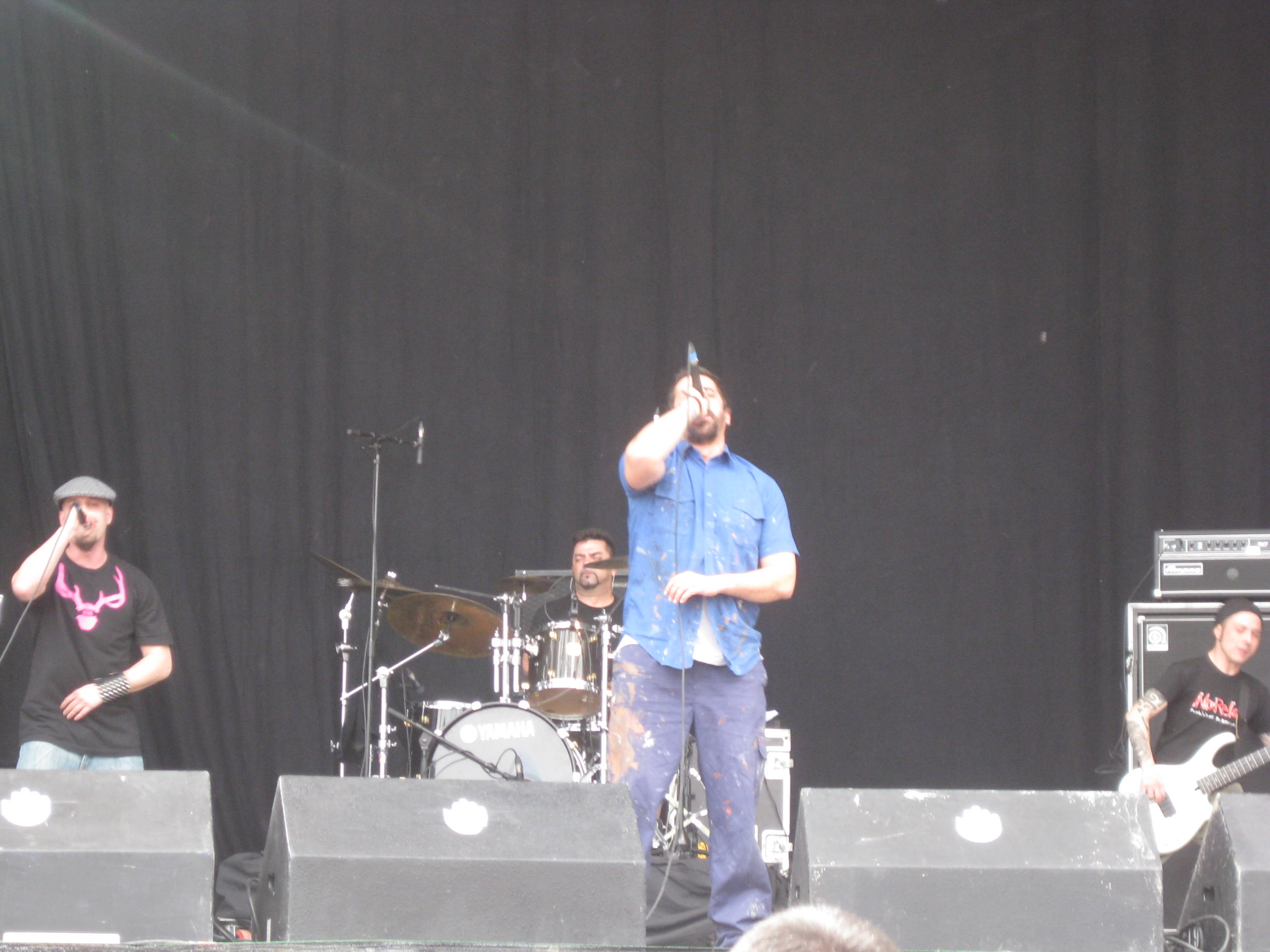 sindicato del crimen extremusika 2009